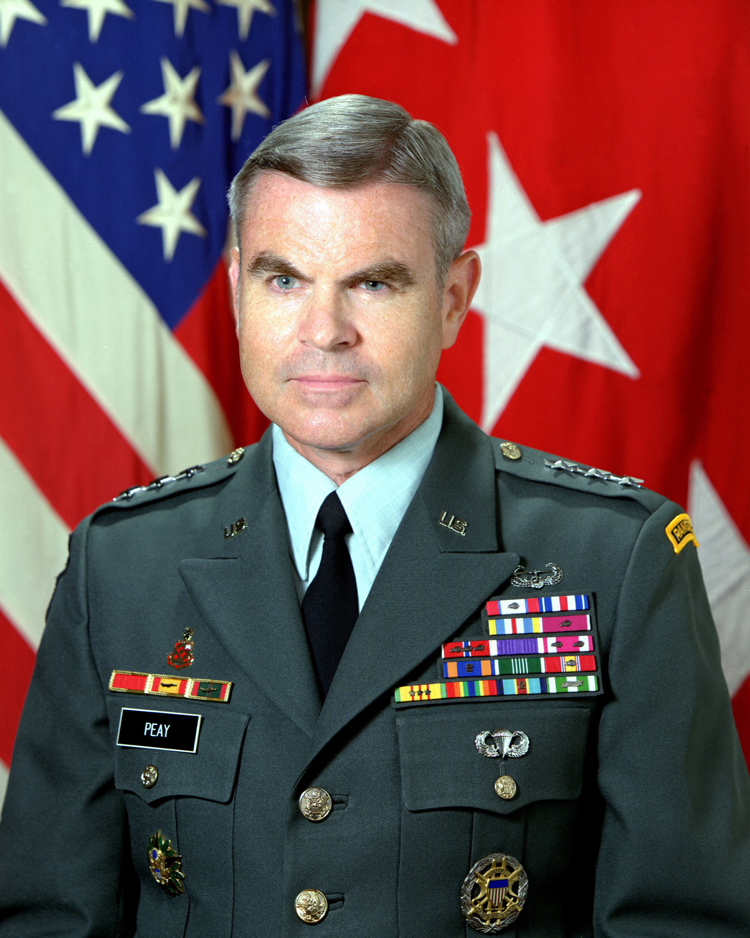 Lieutenant General J.H. Binford Peay III., former CENTCOM commander.